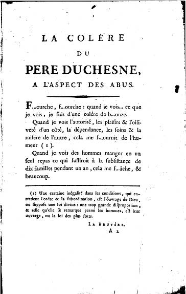 Eighteenth-century cover from a Père Duchesne broadside